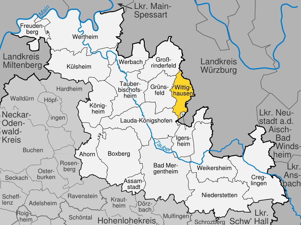 position of Wittighausen within the Main-Tauber-Kreis, Baden-Württemberg, Germany